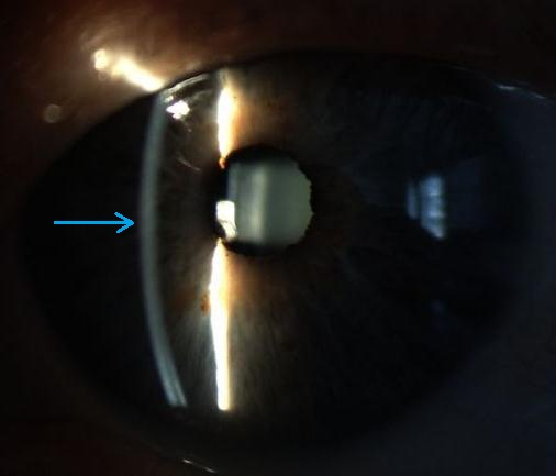 cornea